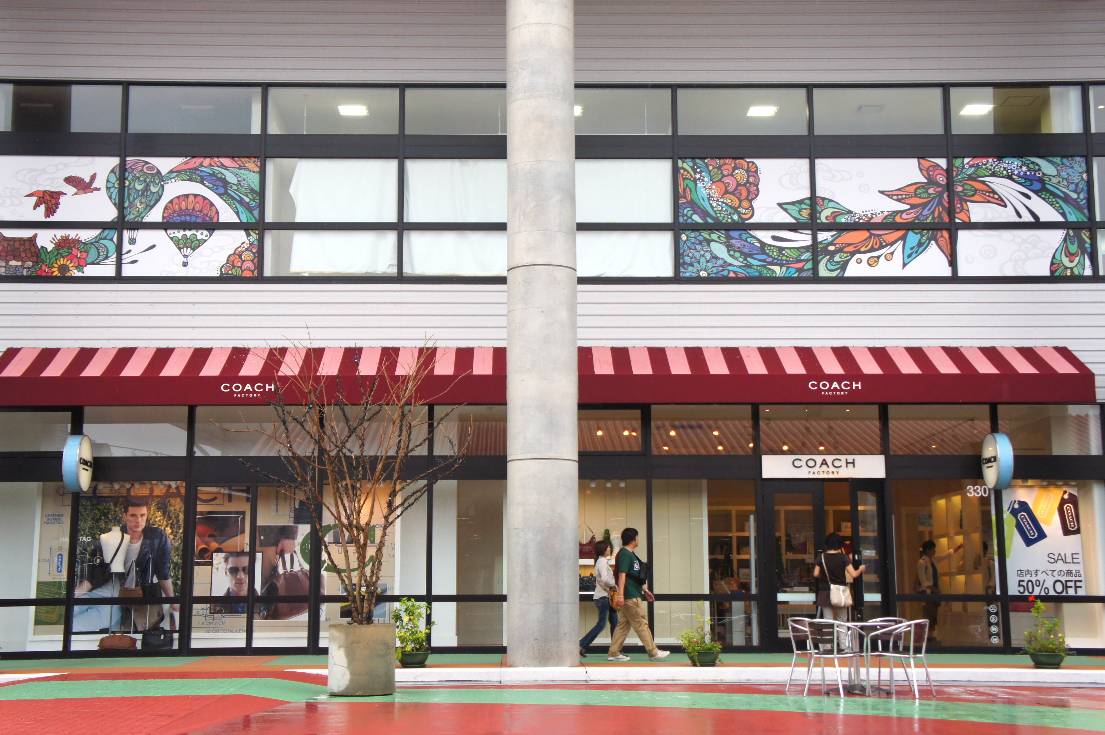 Coach Factory at the Okinawa Outlet Mall Ashibinaa, Tomigusuku, Okinawa.